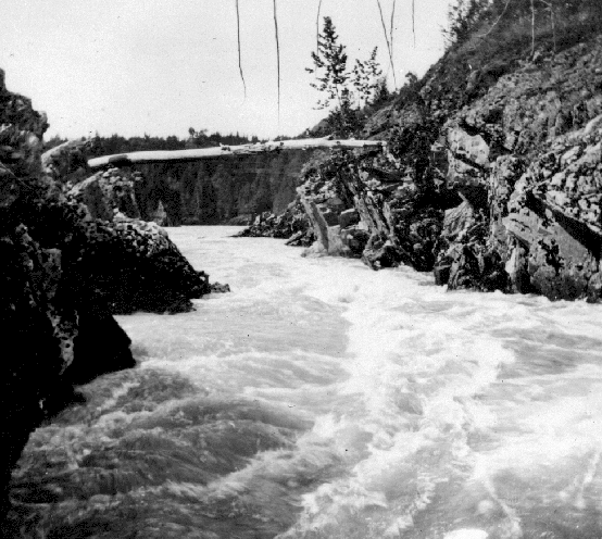 Photographer:Unknown Photo taken:1910's Source:BC Archives#E-00055 [1]